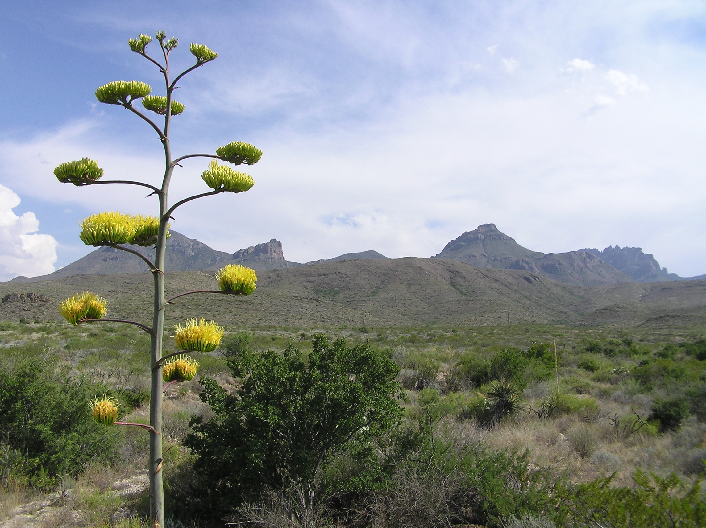 Agave flower, and mountains — in Big Bend National Park. Description Sometimes considered "three parks in one," Big Bend includes mountain, desert, and river environments. An hour’s drive can take you from the banks of the Rio Grande to a mountain basin nearly a mile high. Here, you can explore one of the last remaining wild corners of the United States, and experience unmatched sights, sounds, and solitude.